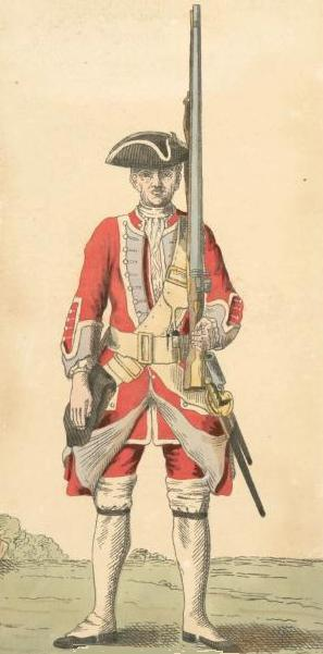 Soldier of the 44th regiment (1742)